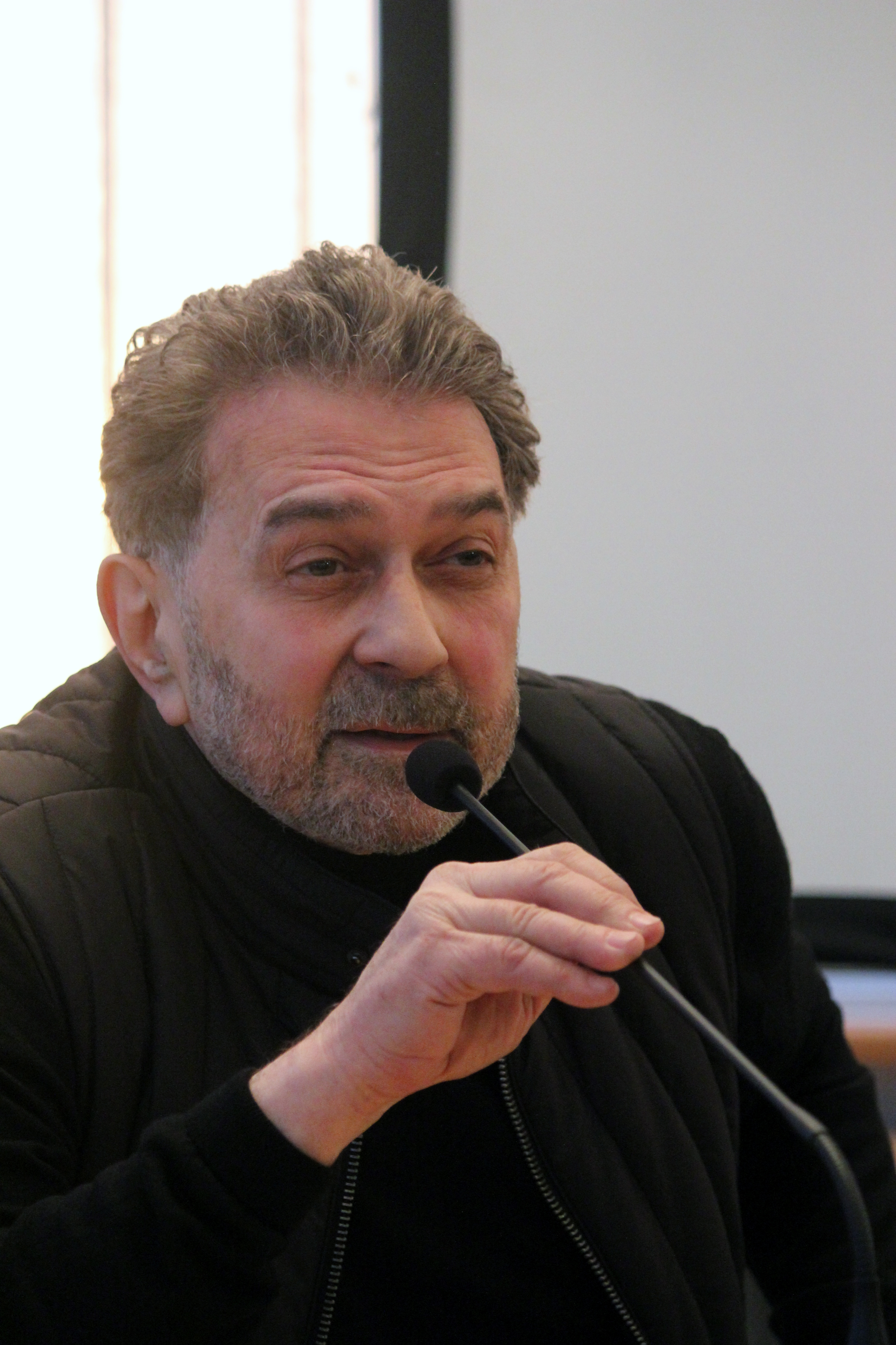 Russian painter Grisha Bruskin at the 20 Moscow International Fair Non/fiction 2018